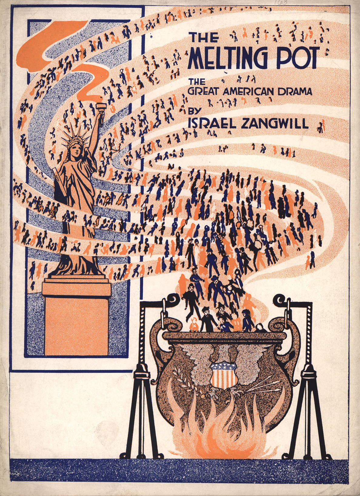 Cover of Theater Programme for Israel Zangwill's play "The Melting Pot"